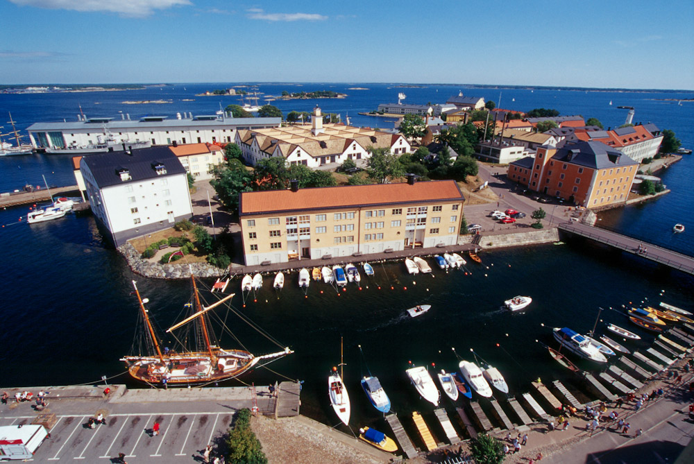 The Swedish island of Stumholmen